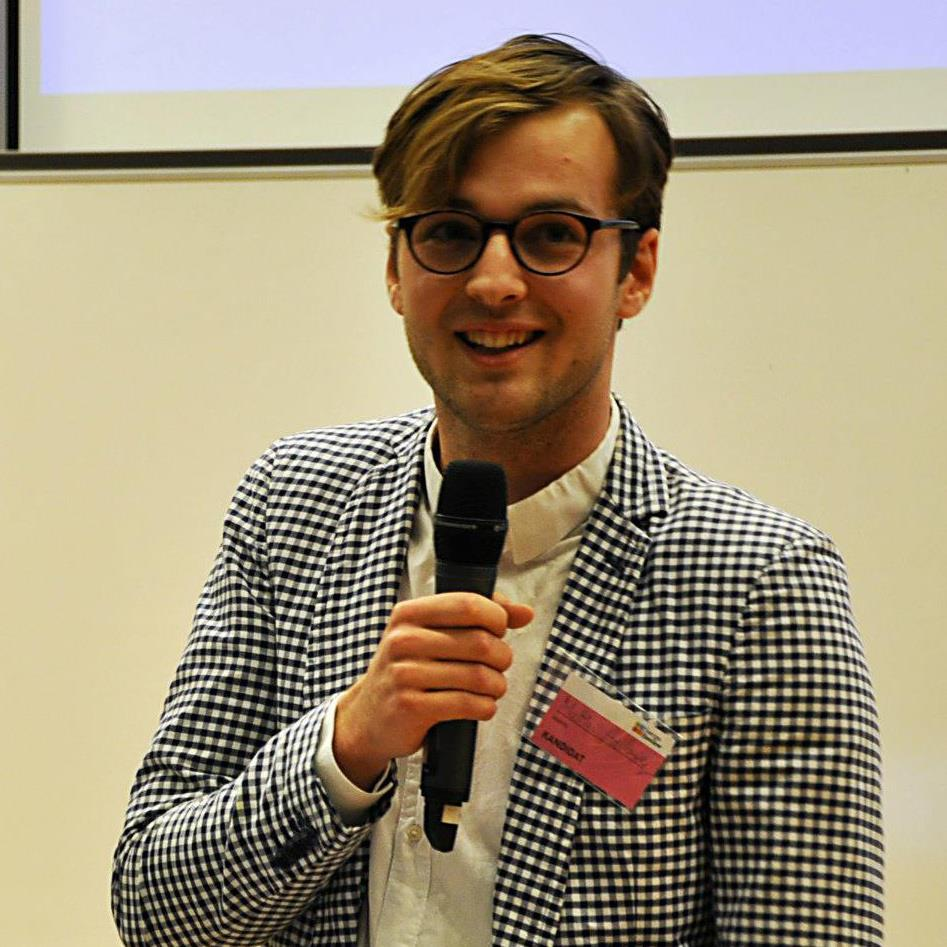 Mattias Hallberg is the president of the swedish fedreation of school students unions